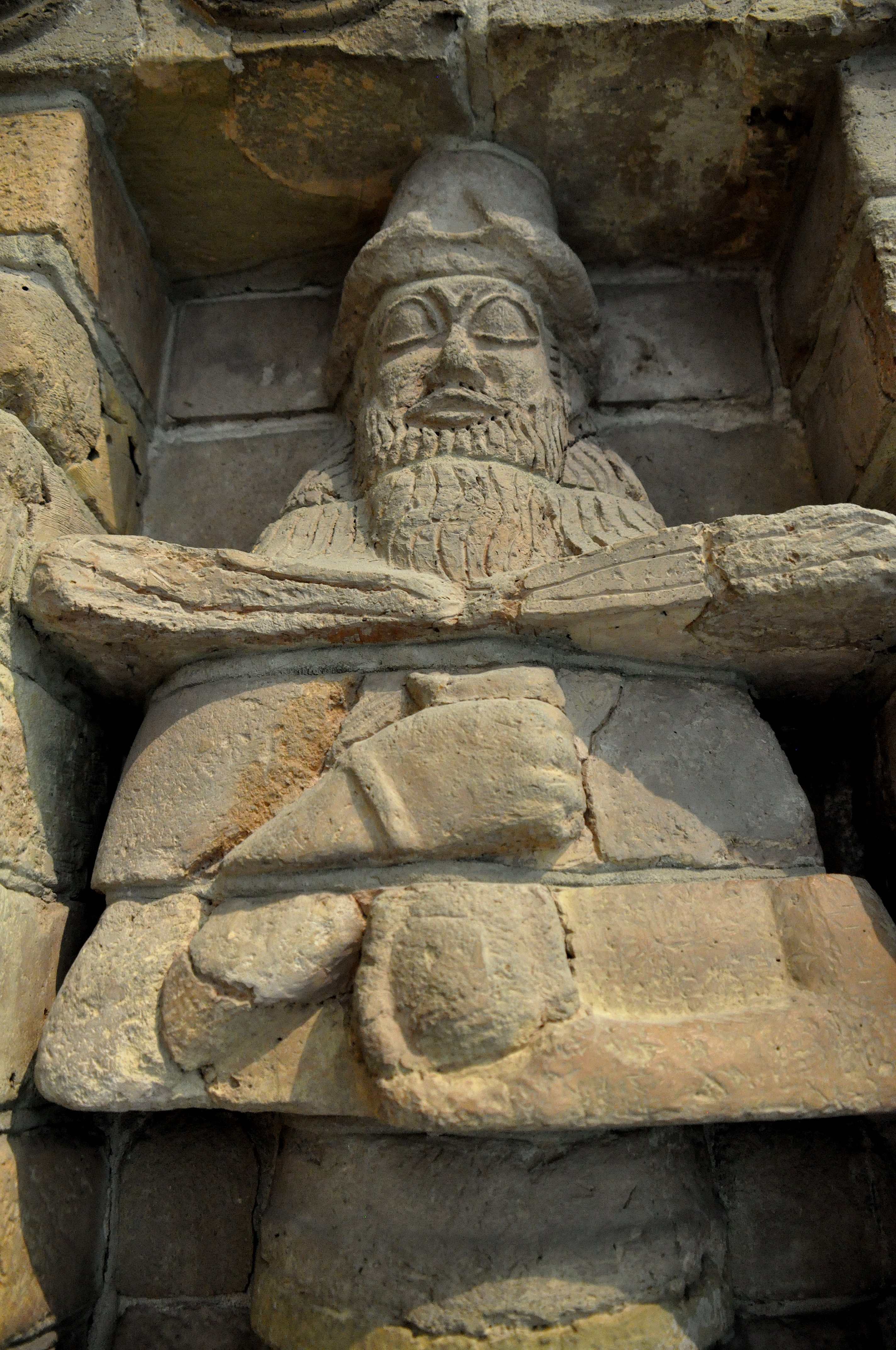 Male deity pouring a life-giving water from a vessel. The deity holds that vessel with his hands. From the facade of Inanna Temple at Uruk, Iraq. The Temple was built by the Kassite ruler Kara-indash. Late 15th century BC. The Pergamon Museum, Berlin, Germany.